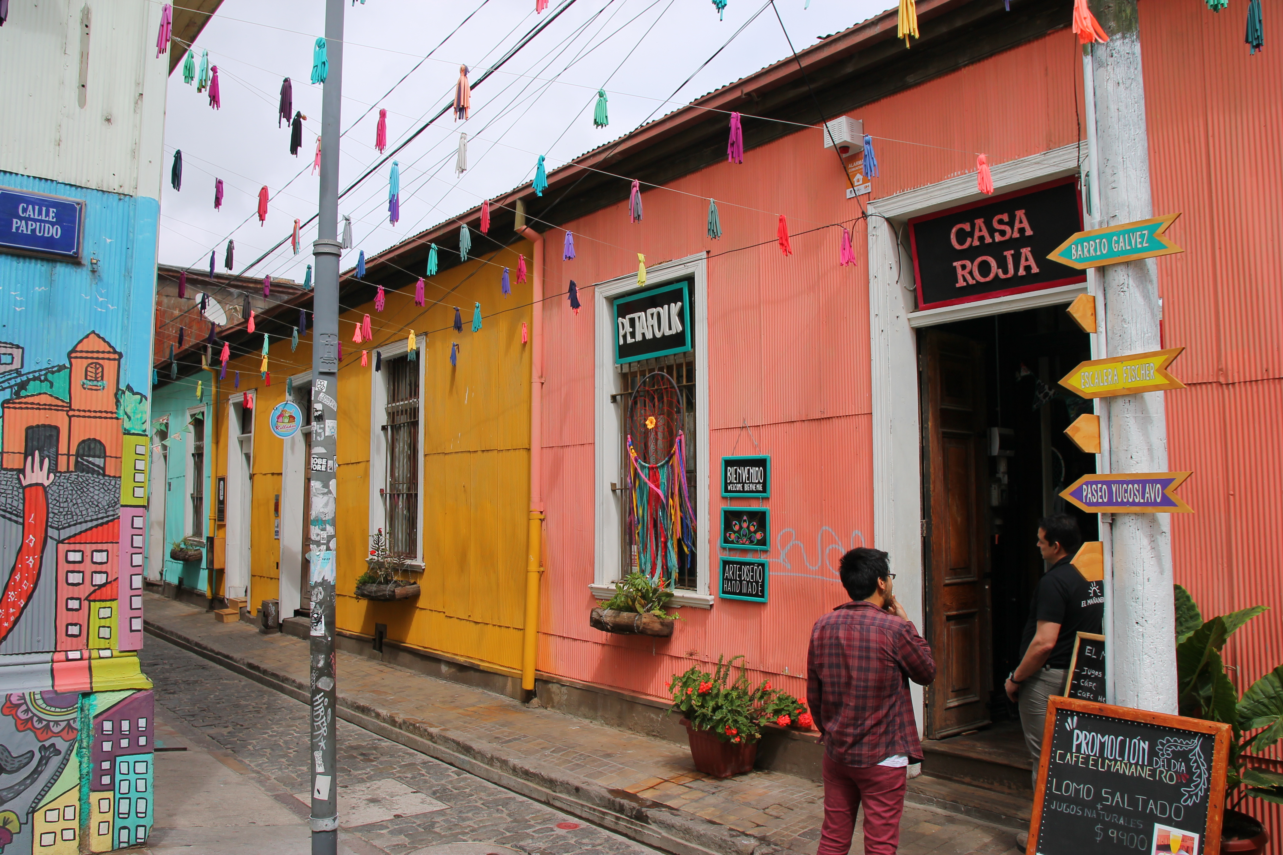 Streets in Valparaíso